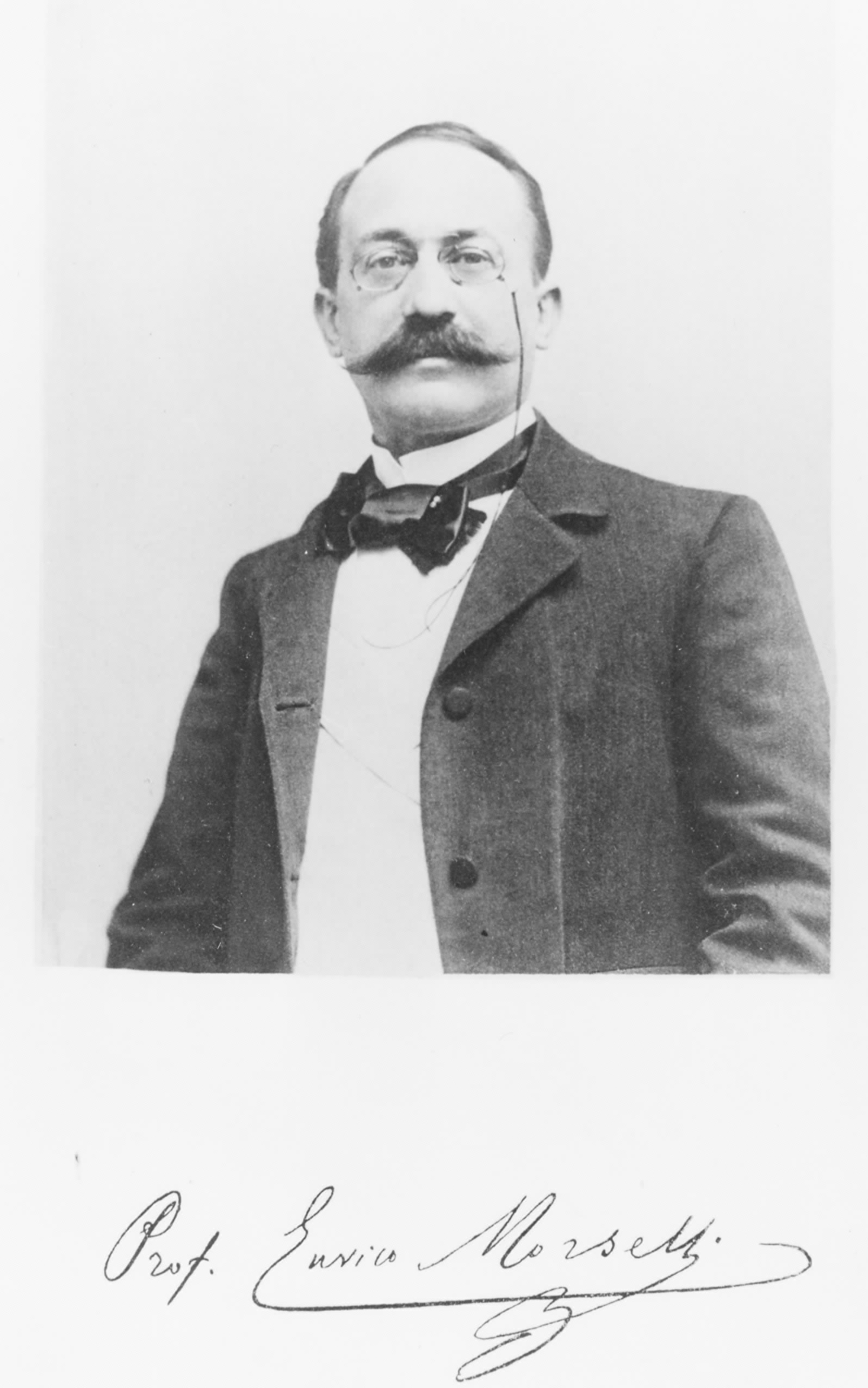 Enrico Morselli